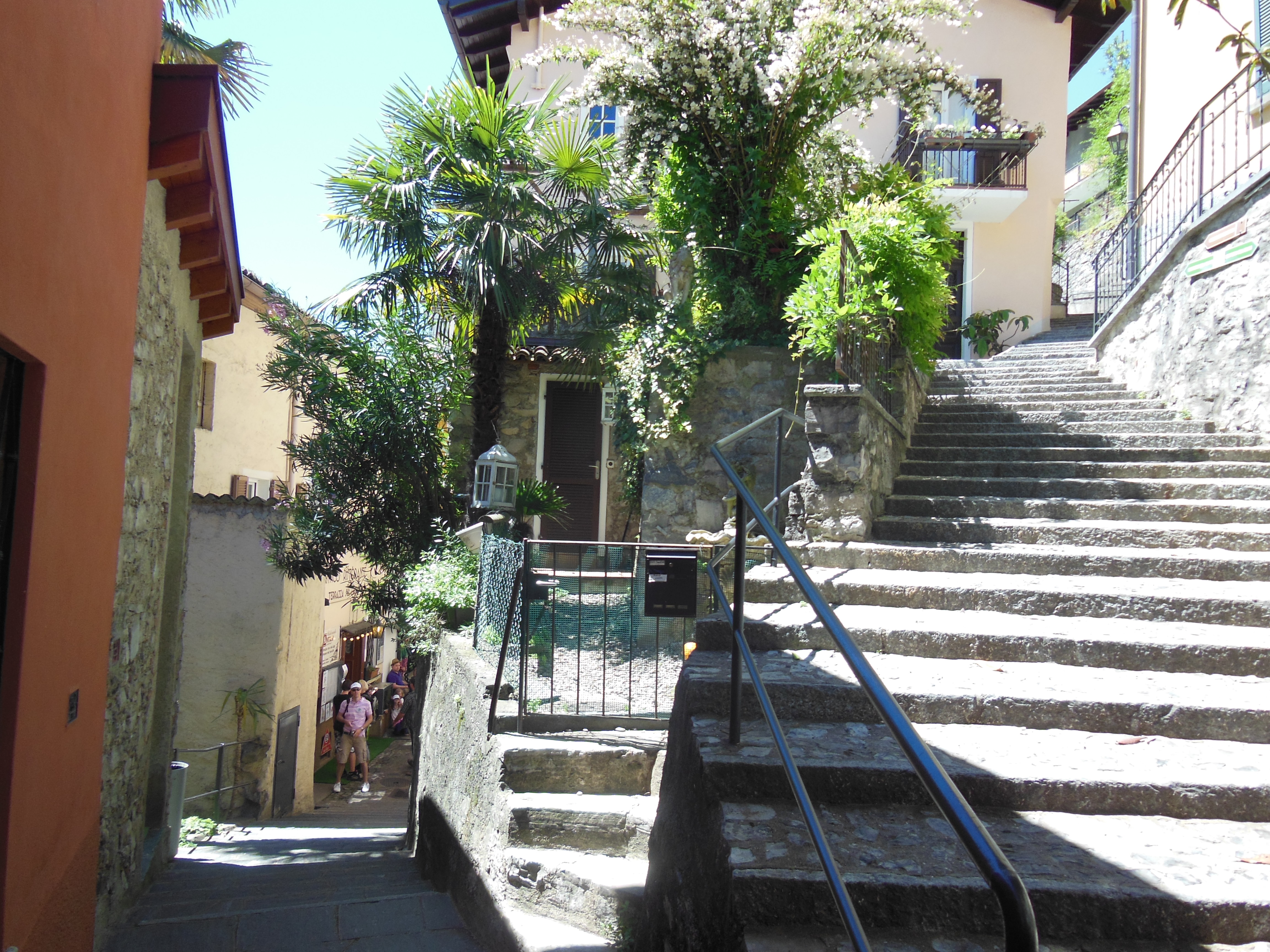 A street scene in the village of Gandria at Lake Lugano in Switzerland.